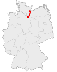 Course Map of Alte Saltzstraße